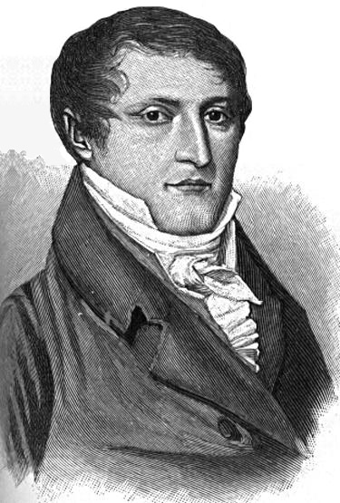 Portrait of Manuel Belgrano.